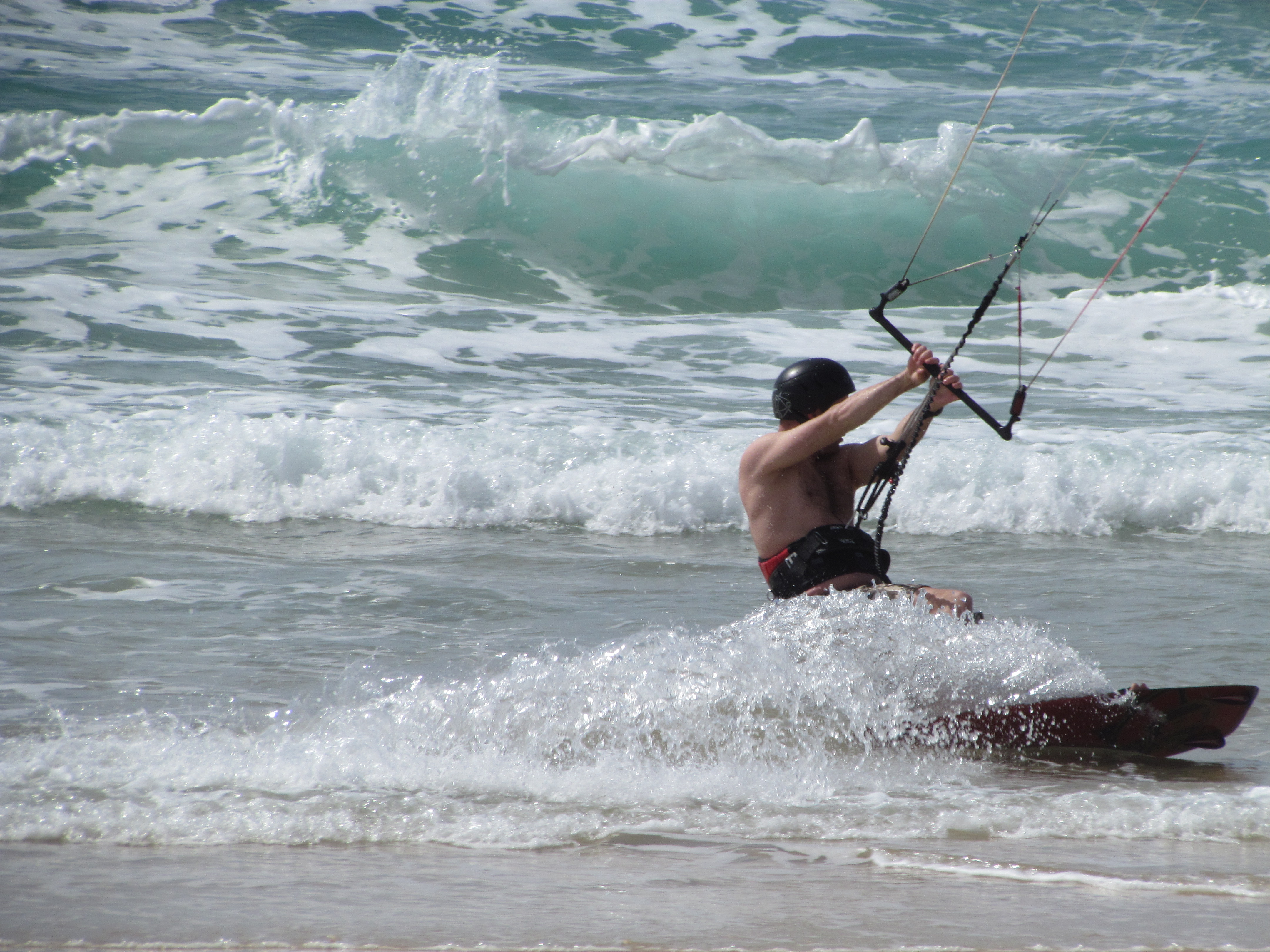 Kite Surfing